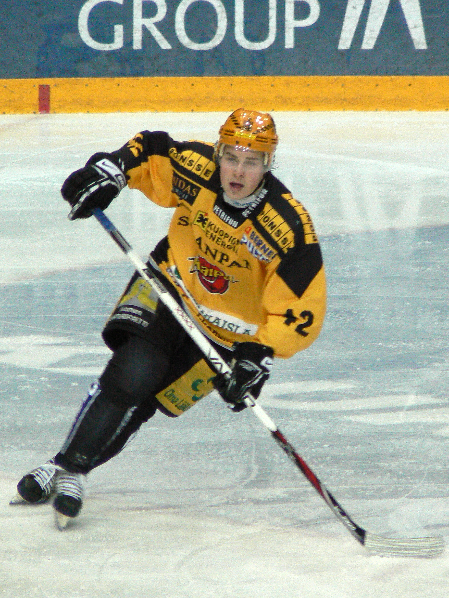 Finnish ice hockey winger Tommi Jokinen of KalPa Kuopio in an SM-liiga game in February, 2009.